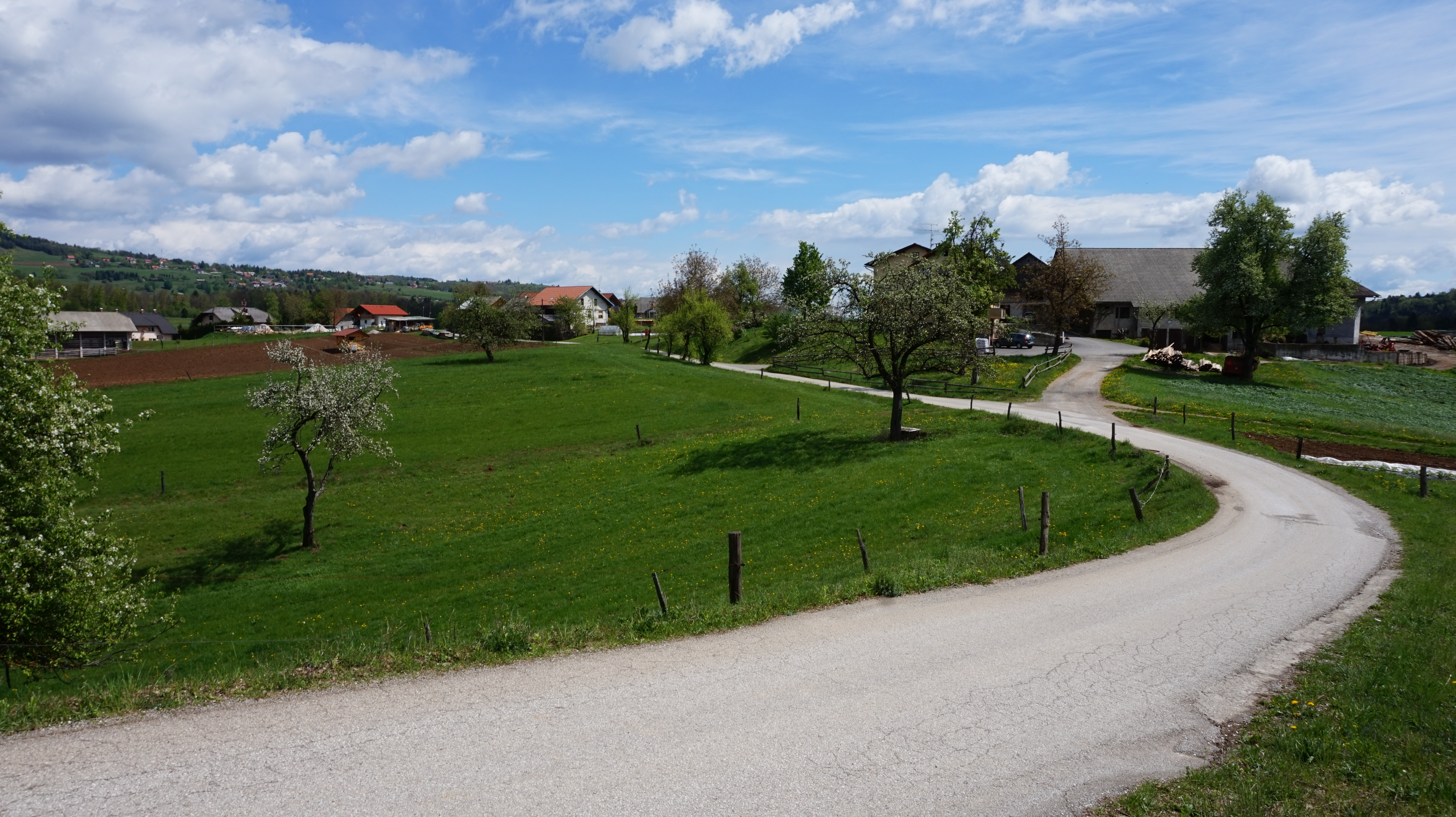 The Spodnje Brezovo village near Višnja Gora, photographed from west